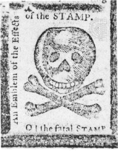 "An Emblem of the Effects of the STAMP."